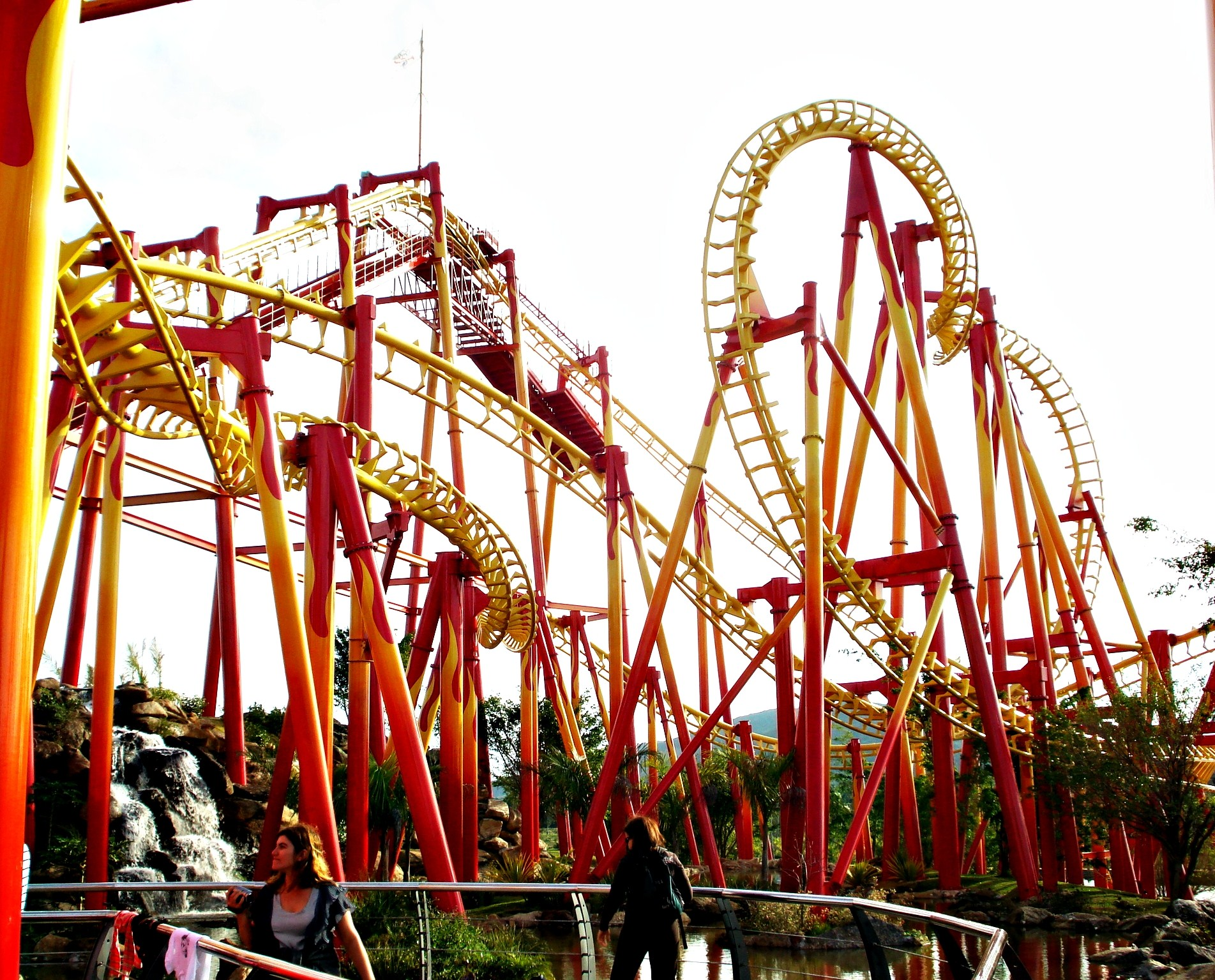 The FireWhip rollercoaster